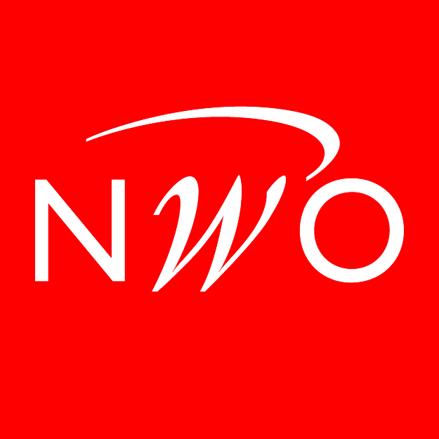 NWO avatar red